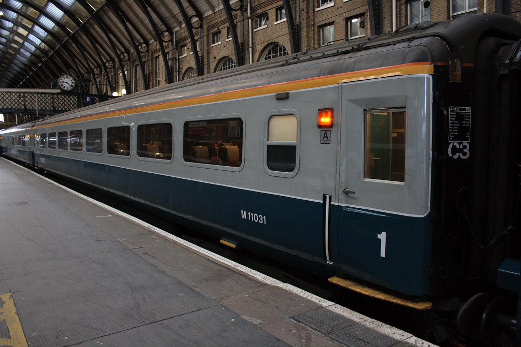 First class British Rail Mark 3 carriage at London King's Cross railway station prior to departing with the 0934 Hull Trains service to Doncaster.